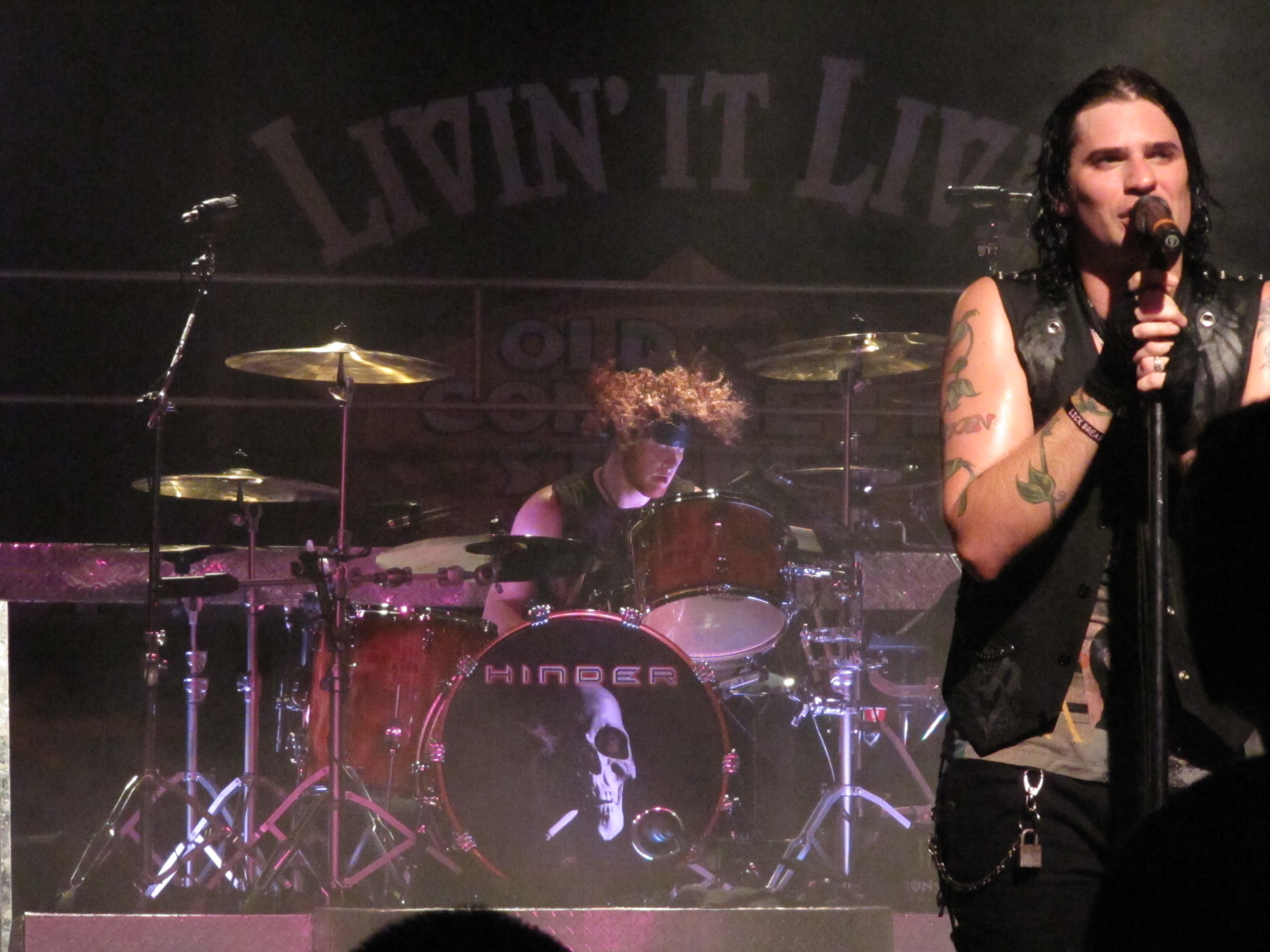 Hinder concert Corpus Christi,TX